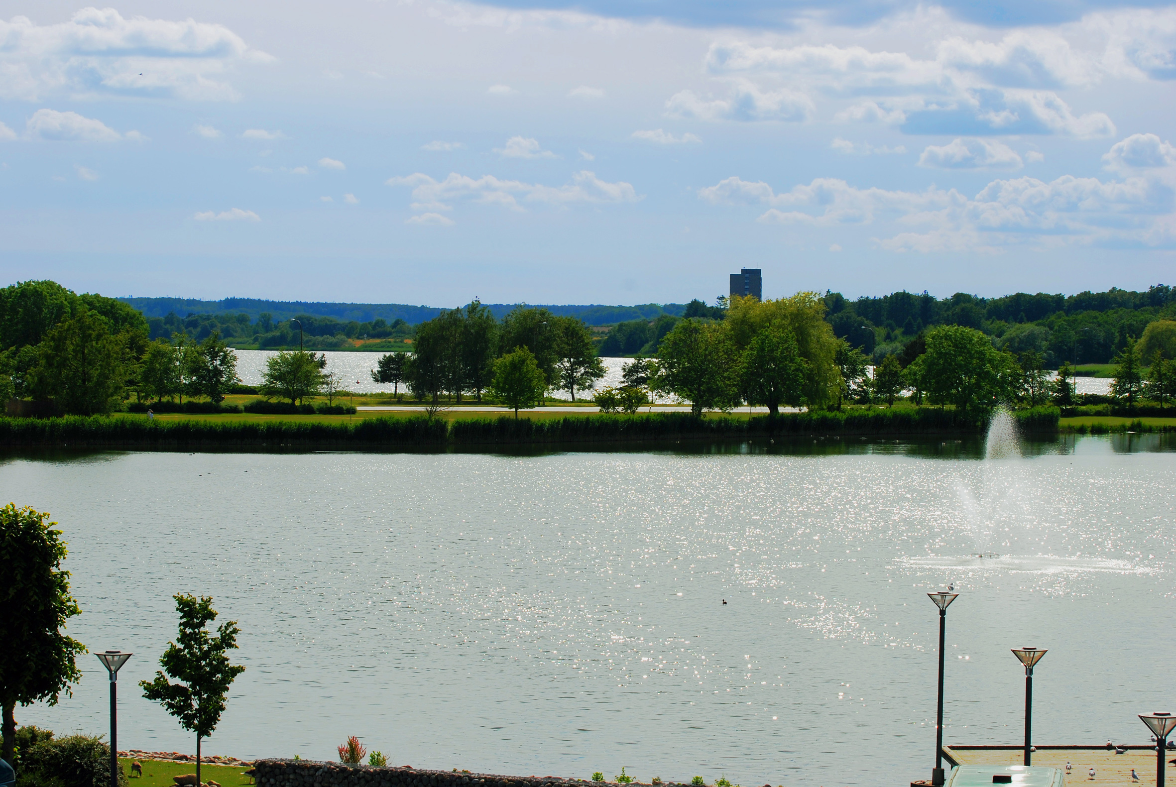 Haderslev Lake, Denmark